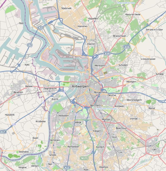 Map of Antwerp Geographic limits of the map: N ?° W ?° E ?° Z ?°